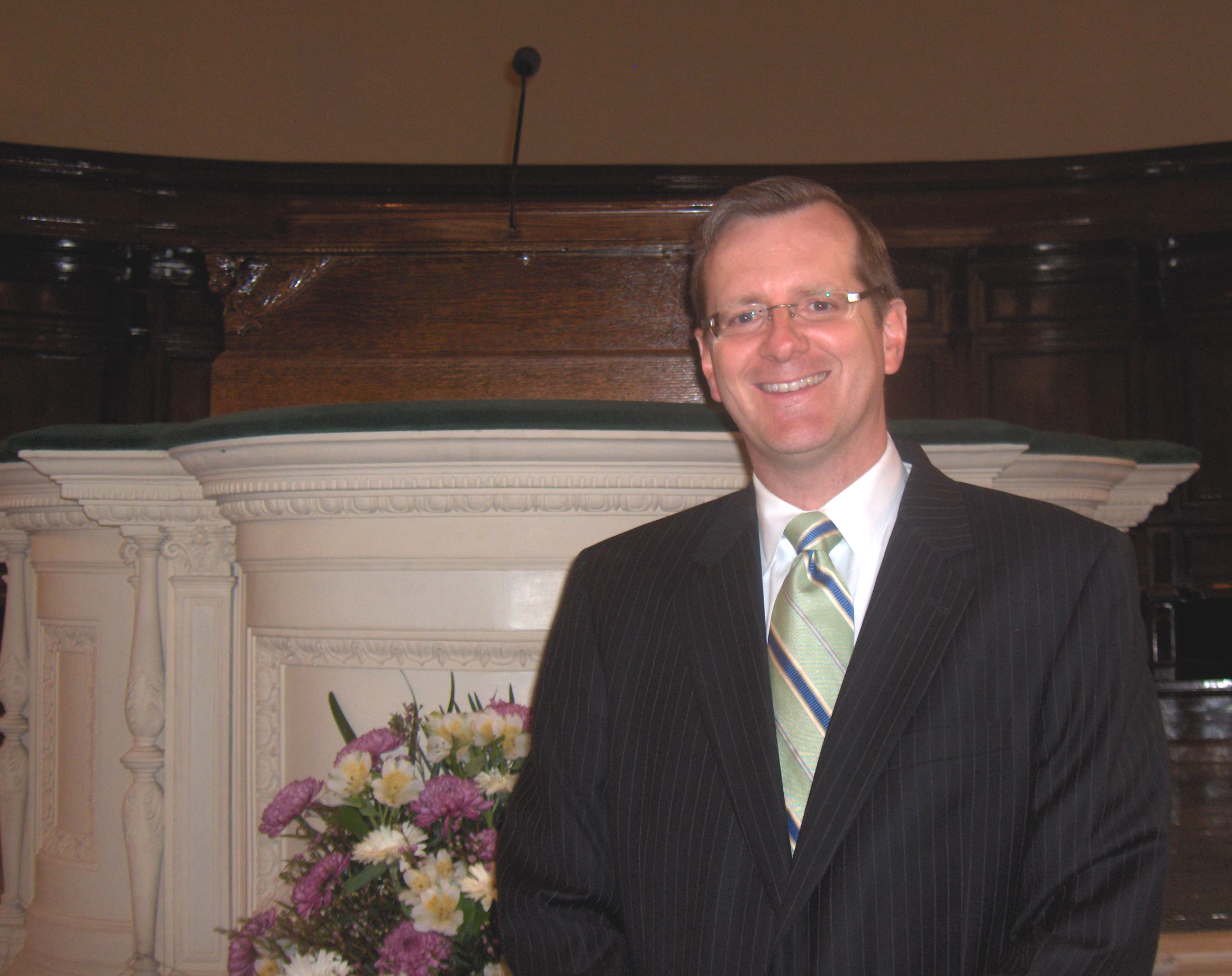 Philip Graham Ryken, president of Wheaton College in Wheaton, Illinois, photographed on his last Sunday as the senior pastor of Tenth Presbyterian Church, Philadelphia, PA, in front of the pulpit.